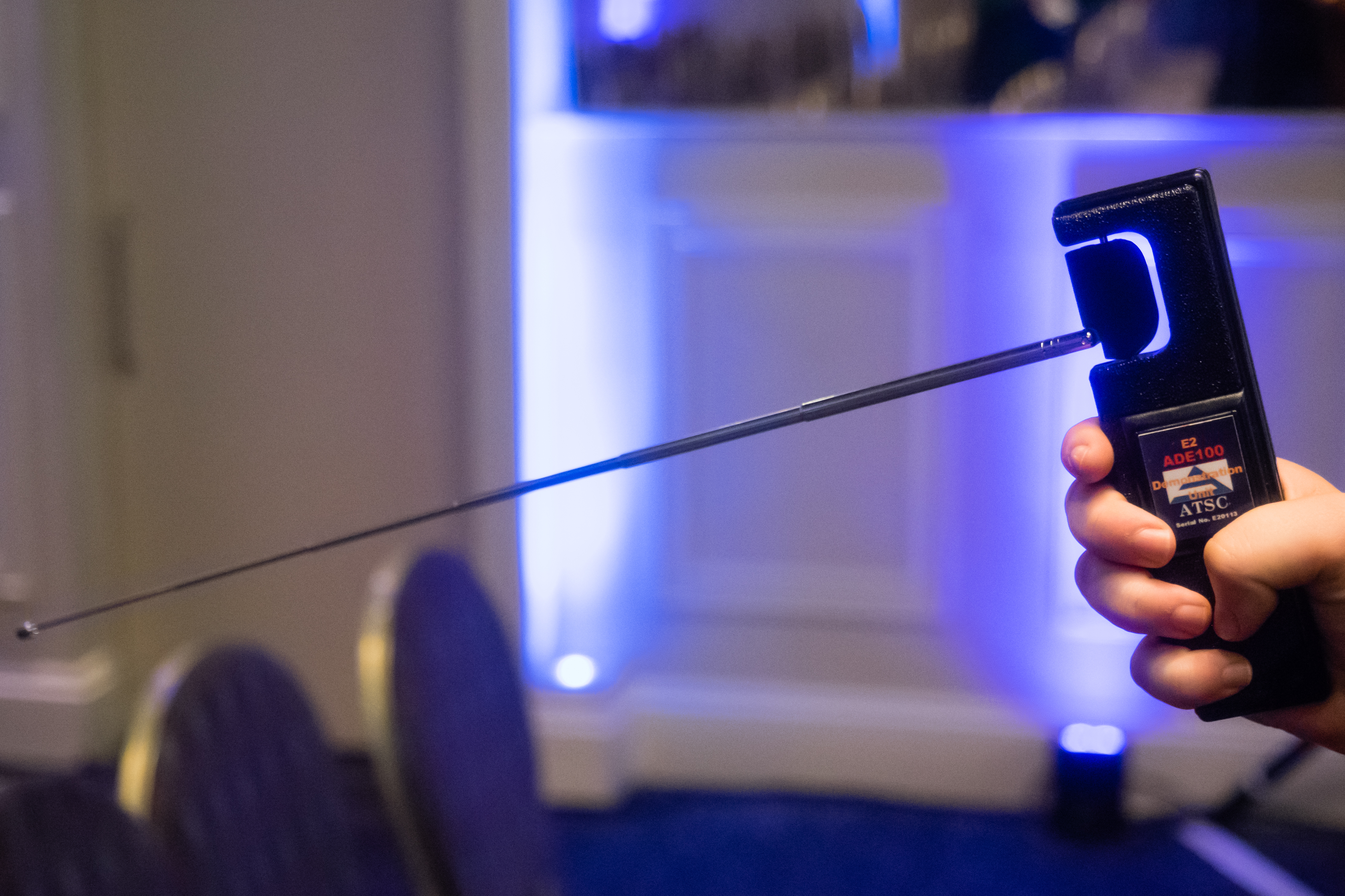 Photo of an ADE 100 taken at QEDcon 2016 at the Mercure Manchester Piccadilly Hotel, after a talk by Meirion Jones.